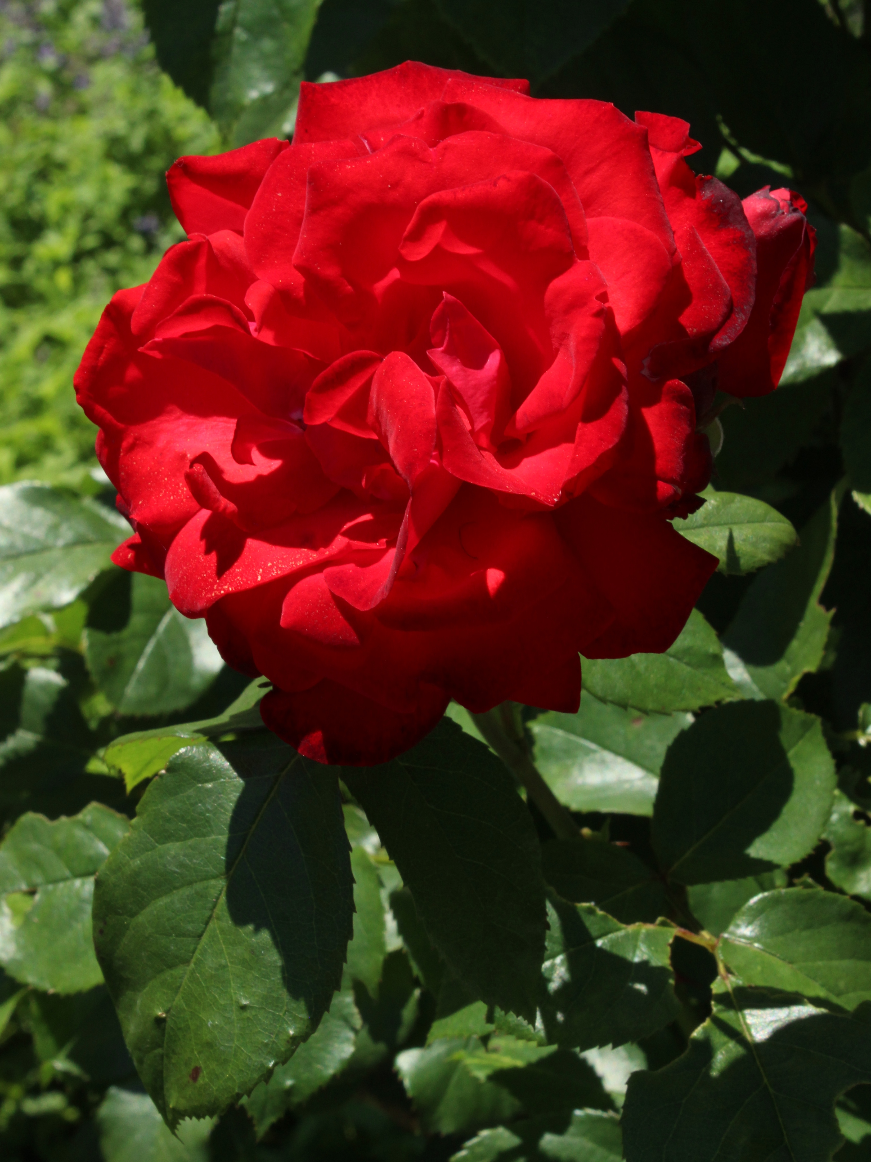 Rosa 'Satchmo' in the Rosarium Baden in the Doblhoffpark in Baden bei Wien. Identified by sign.